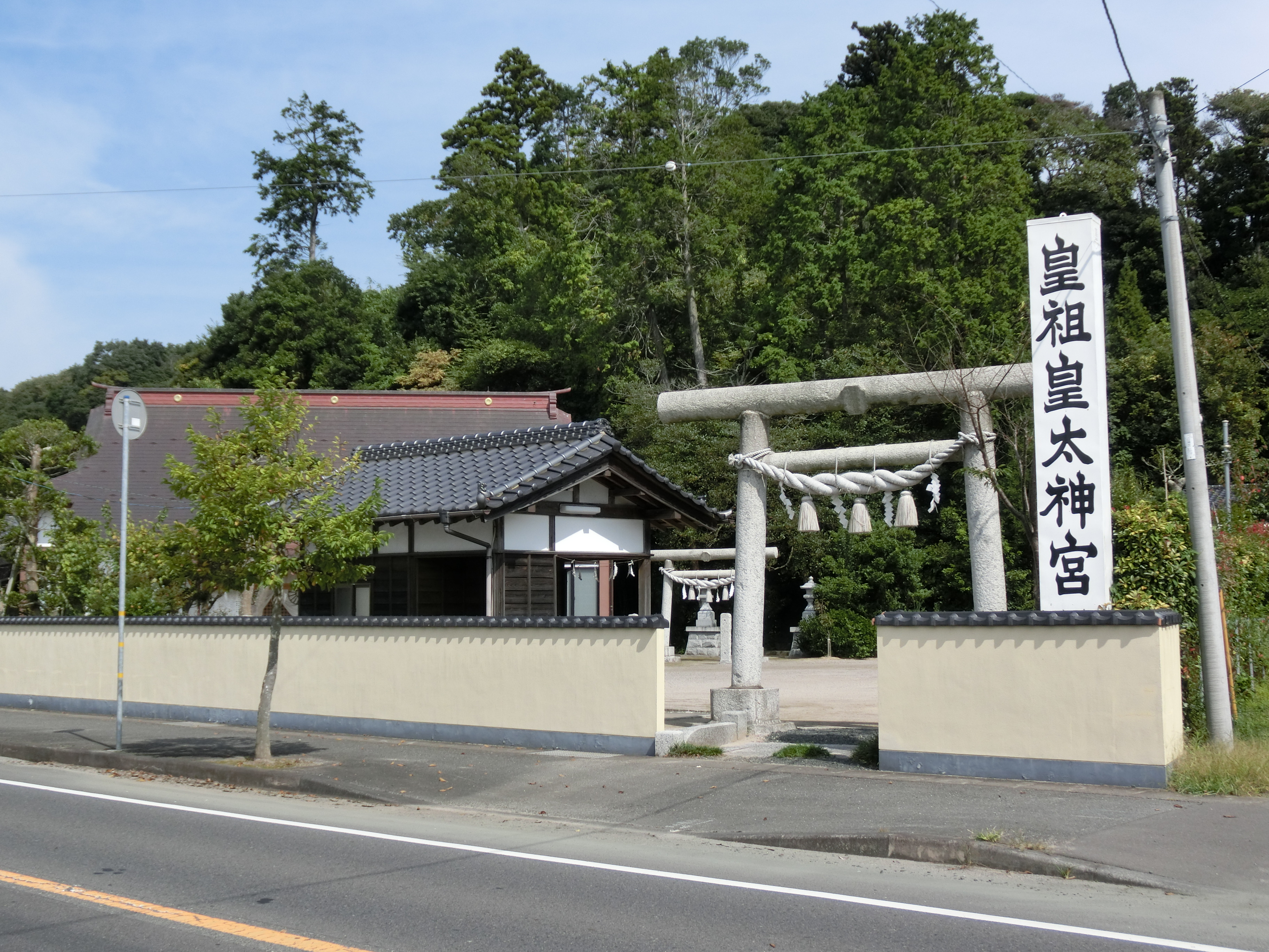 Kosokotaijingu-Amatsukyo Headquarter